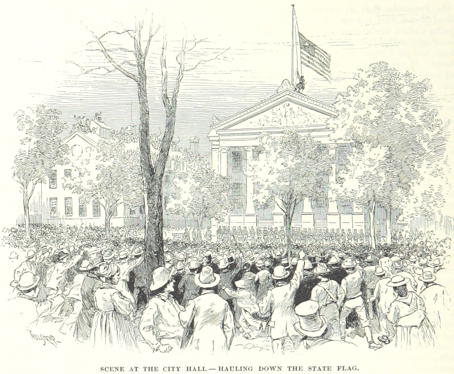 Union troops lower the Louisiana Confederate state flag during the Capture of New Orleans.